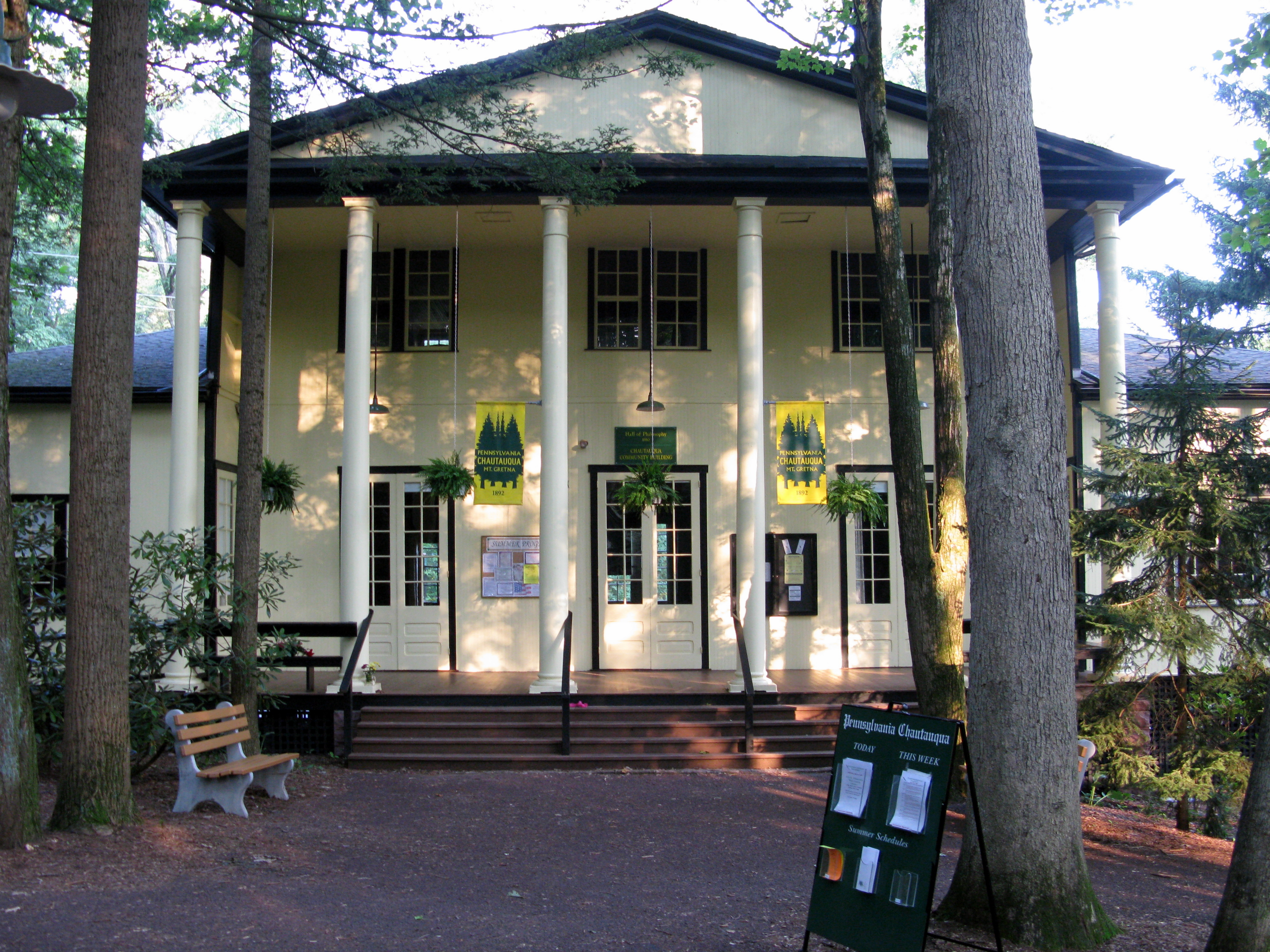 Photography of the Hall of Philosophy, Pennsylvania Chautauqua, Mount Gretna, Pennsylvania